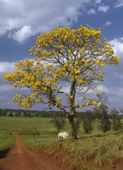 Cropped version of Image:Ipê (Avaré) REFON.jpg